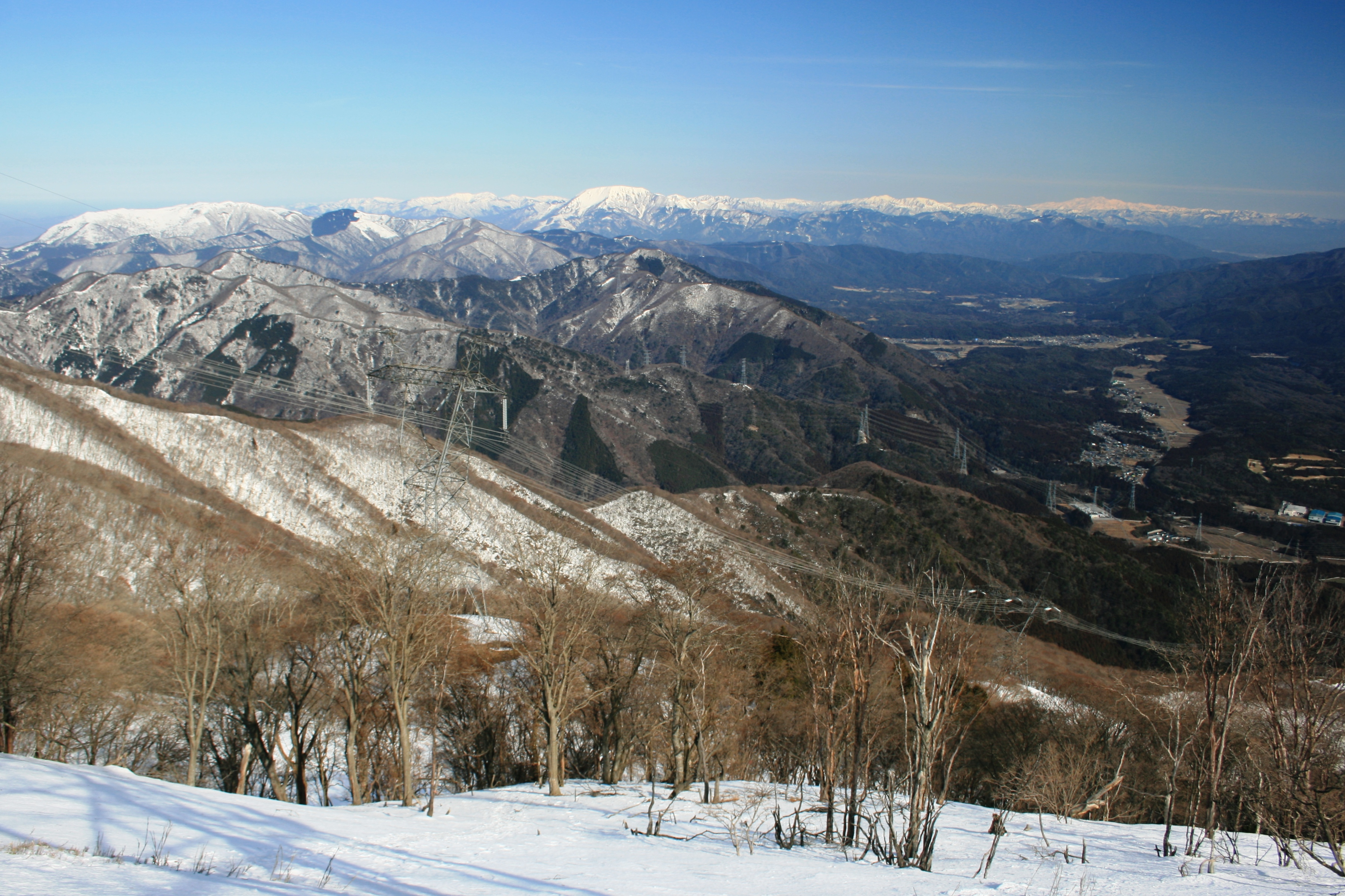 Mount Ibuki and Mount Haku from Mount Fujiwara of Suzuka Mountains